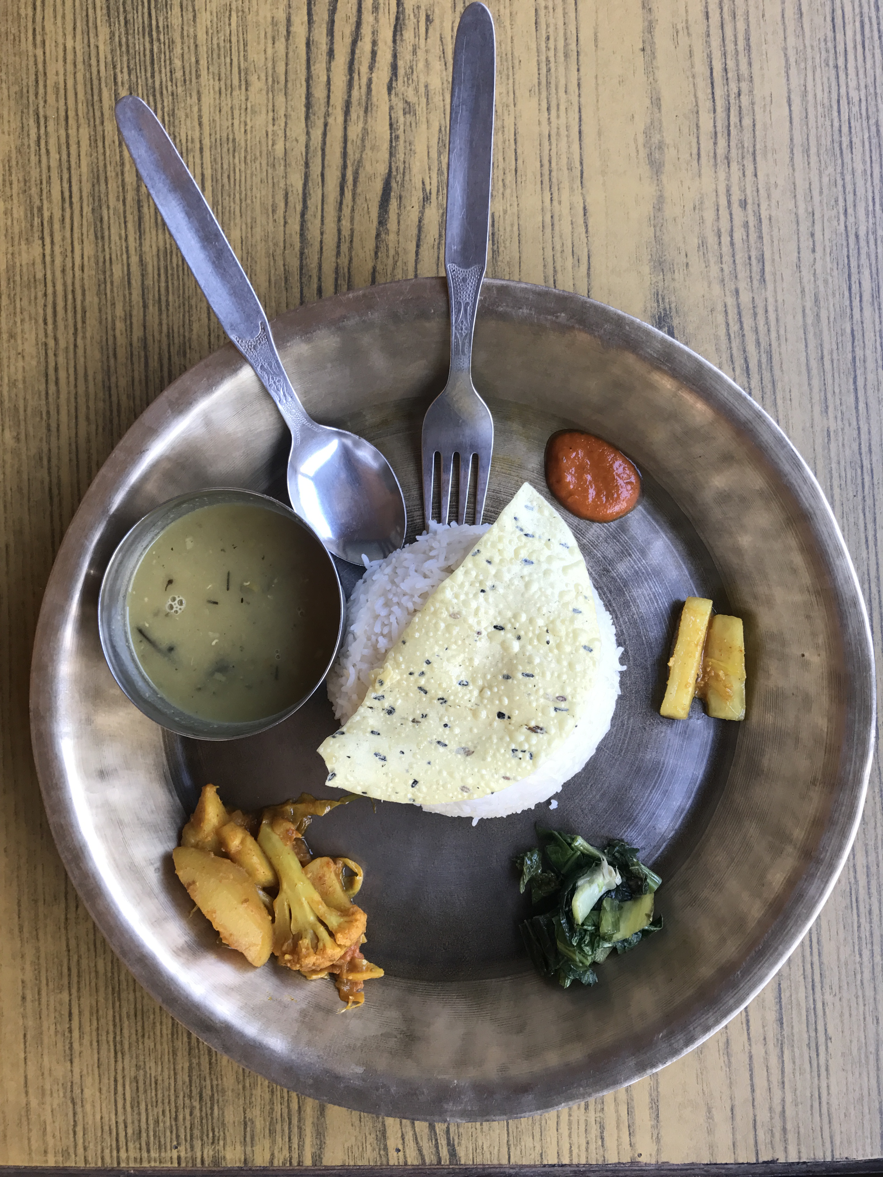 Dal bhat meal in Birethani, Nepal